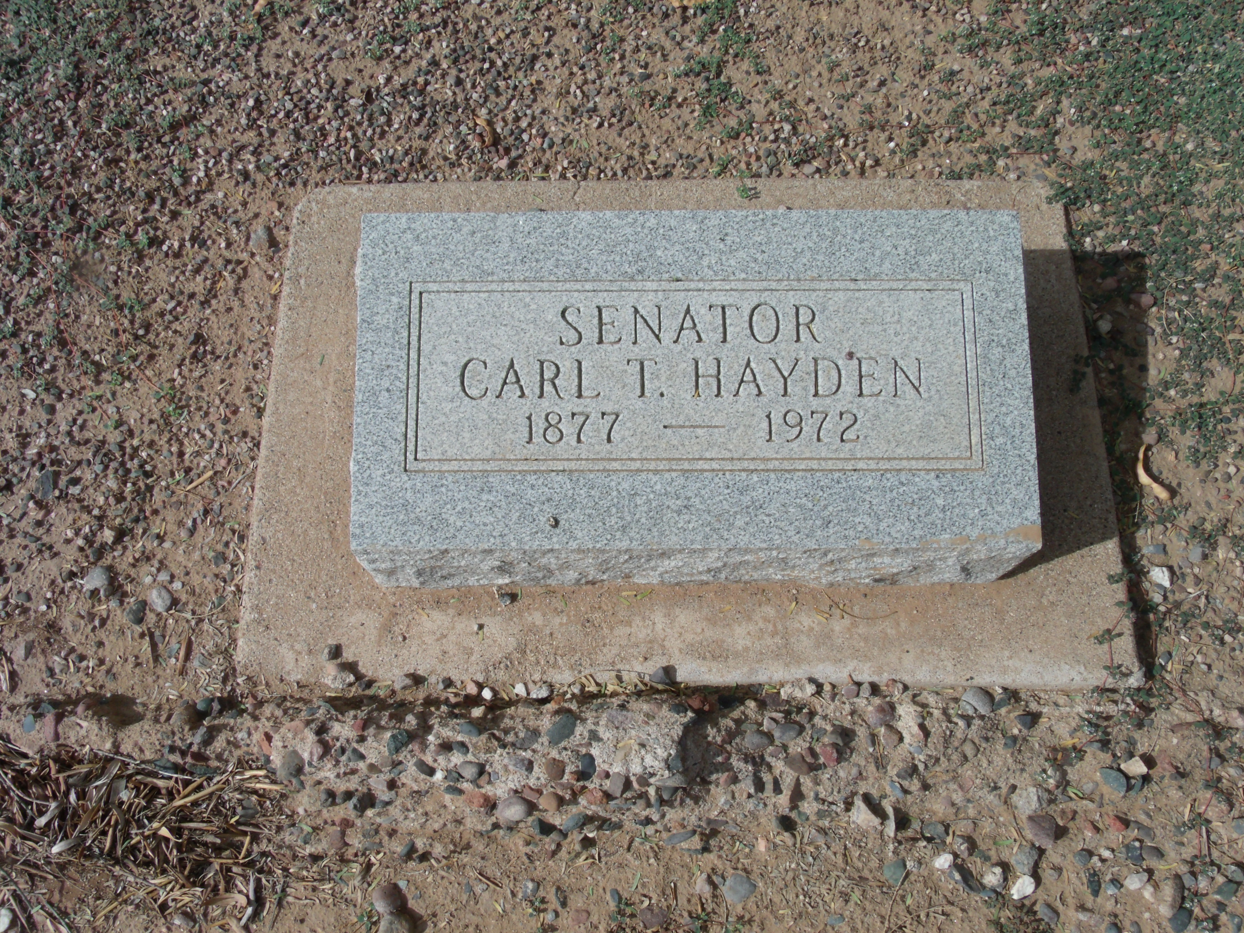 The grave site of Carl T. Hayden (1877- 1972). Hayden was the first United States Senator to serve seven terms. He served as Arizona’s first representative for eight terms before entering the Senate, Hayden set the record for longest serving member of the United States Congress more than a decade before his retirement from politics. He is buried in sec. B-53 of the pioneer section of the cemetery which was listed in the National Register of Historic Places on July 30, 2013, reference #13000020